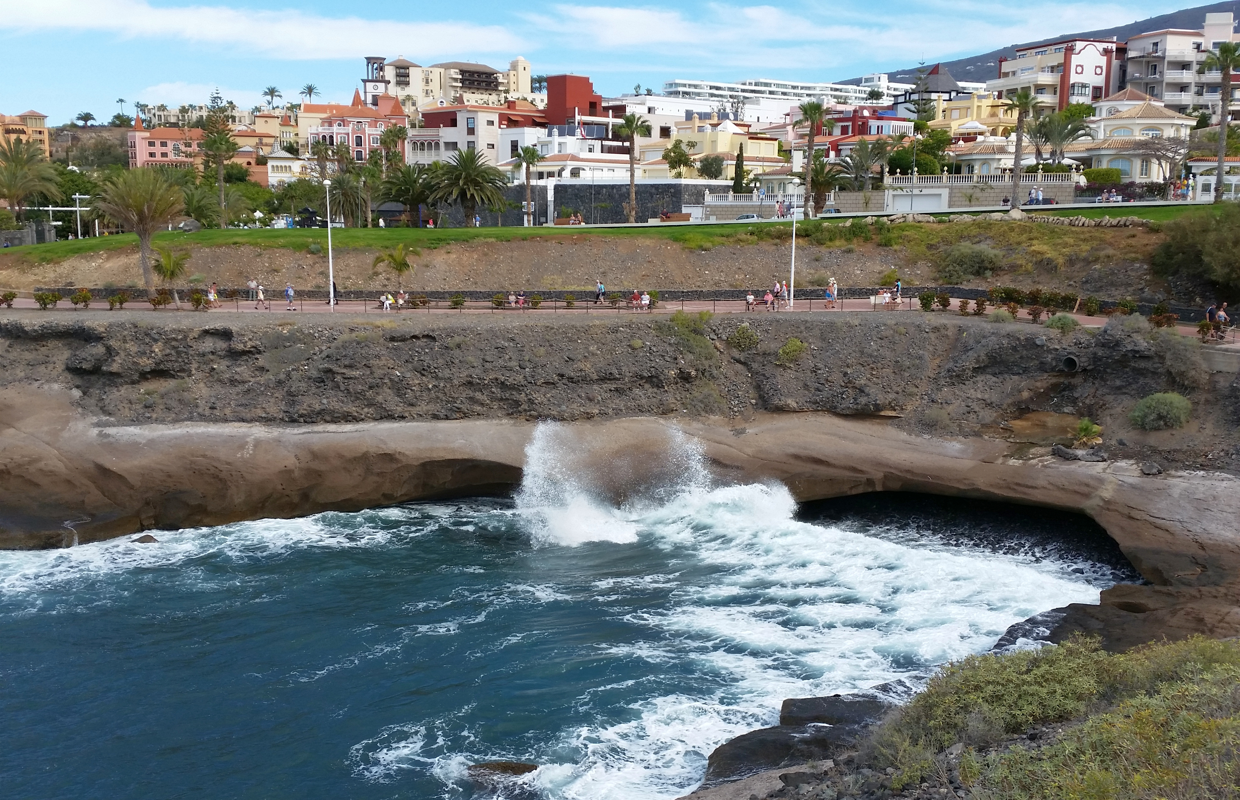 Atlantic coastline in Costa Adeje, Tenerife